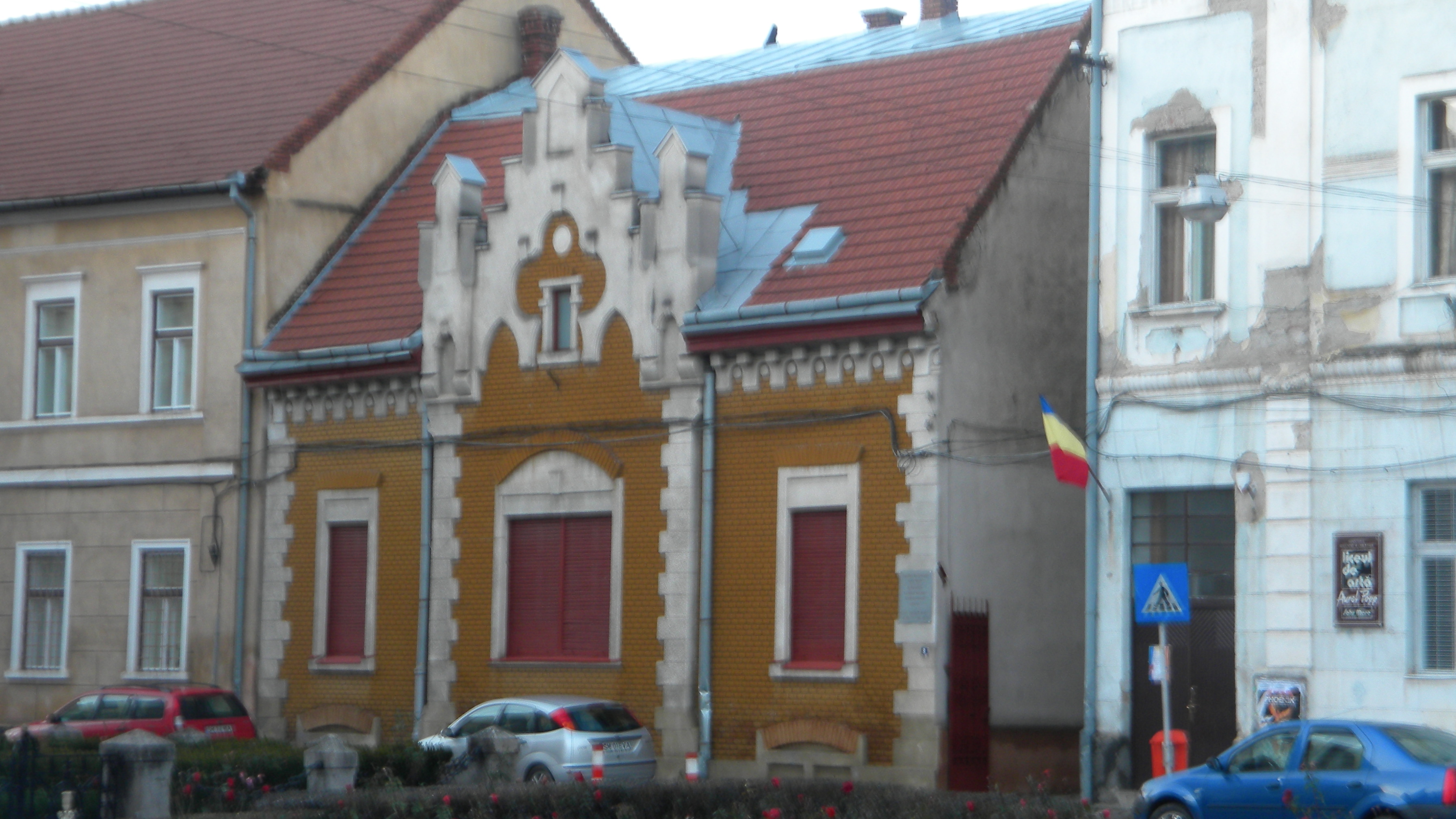 Chains church vicarage